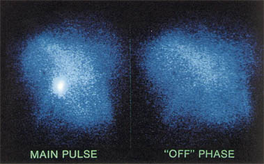 Stroboscopic view of the Crab Nebula pulsar. When the X-ray observations were timed to match the frequency of the pulsar, the pulsar seemed to turn on and off. (Einstein Observatory image, Smithsonian Institution Photo No. 80-16234)